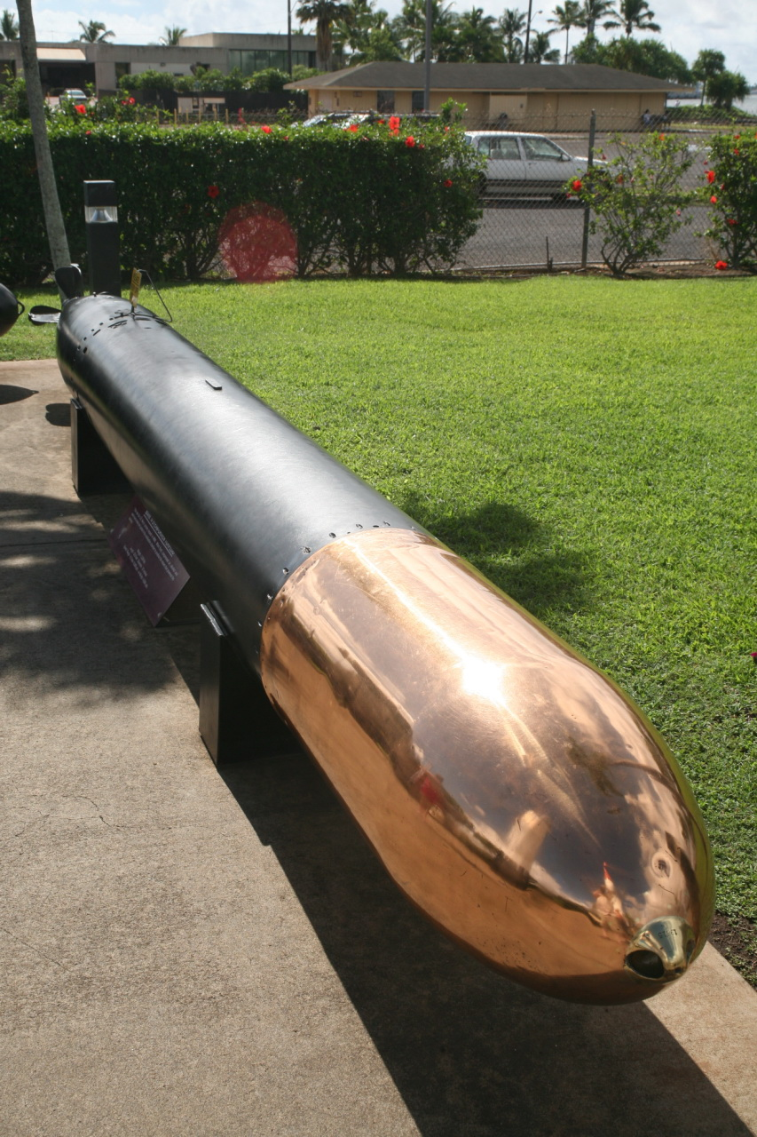 The Mark 14 torpedo was the United States Navy's standard submarine-launched anti-ship torpedo of World War II. This weapon was plagued with many problems which crippled its performance early in the war, and was supplemented by the Mark 18 electric torpedo in the war's final months. Nonetheless, the Mark 14 played a major role in the devastating blow US Navy submarines dealt to the Japanese naval and merchant marine forces during the Pacific War. By the end of World War II, the Mark 14 torpedo was a reliable weapon which remained in service for almost 40 years in the US Navy, and even longer with other navies. See also Mark 14 torpedo